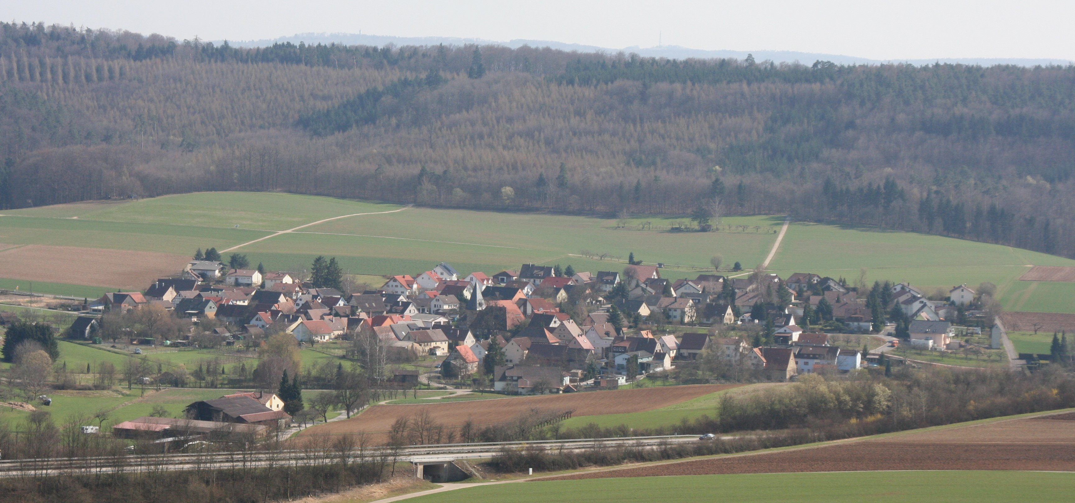 Eberstadt-Hölzern photographed from the North-West